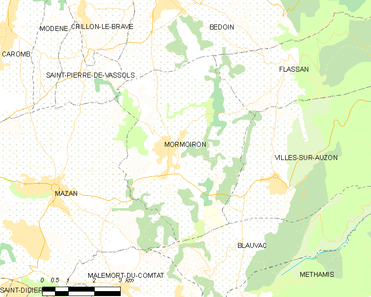 Map of French municipality Mormoiron